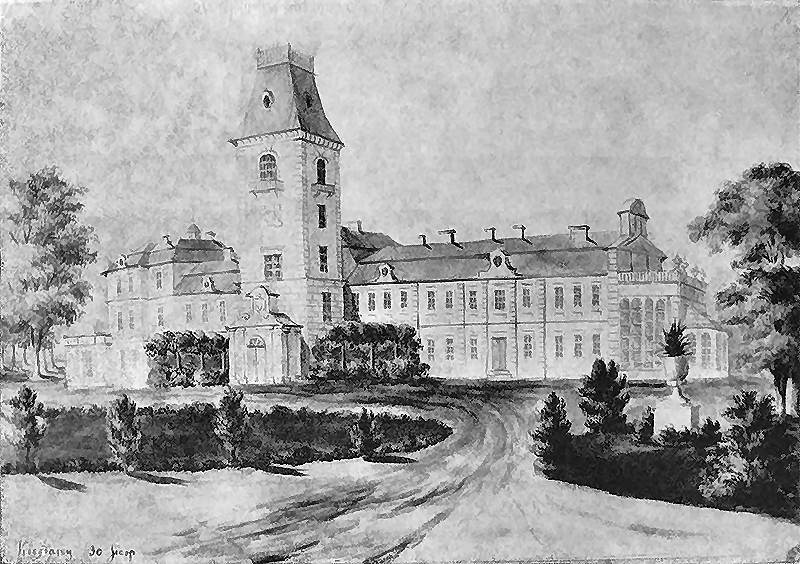 . Kėdainiai, Palace of Marian Czapski, Lithuania 19th century